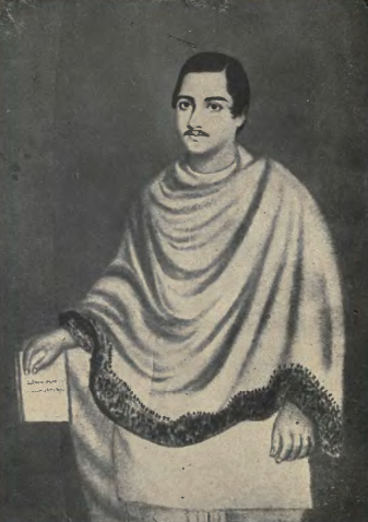 Kaliprasanna Sinha, 19th century Indian writer, philanthropist and Hindu revivalist.